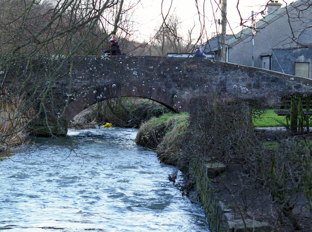 Bridge at St. Vigeans, Angus, across the Brothock Burn (from which Arboath, originally Aberbrothock, is named)